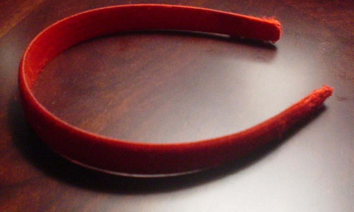 Took picture myself for the article. --WillMak050389 05:43, 28 June 2006 (UTC)